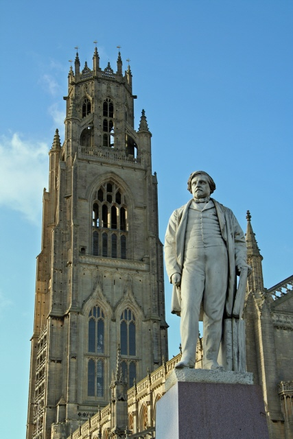 Herbert Ingram Statue, Boston. Herbert Ingram was born on 27th May 1811 in Boston, and became the founder of The Illustrated London News in 1842. His statue stands in Boston next to St Botolph's church, the famous Boston Stump.